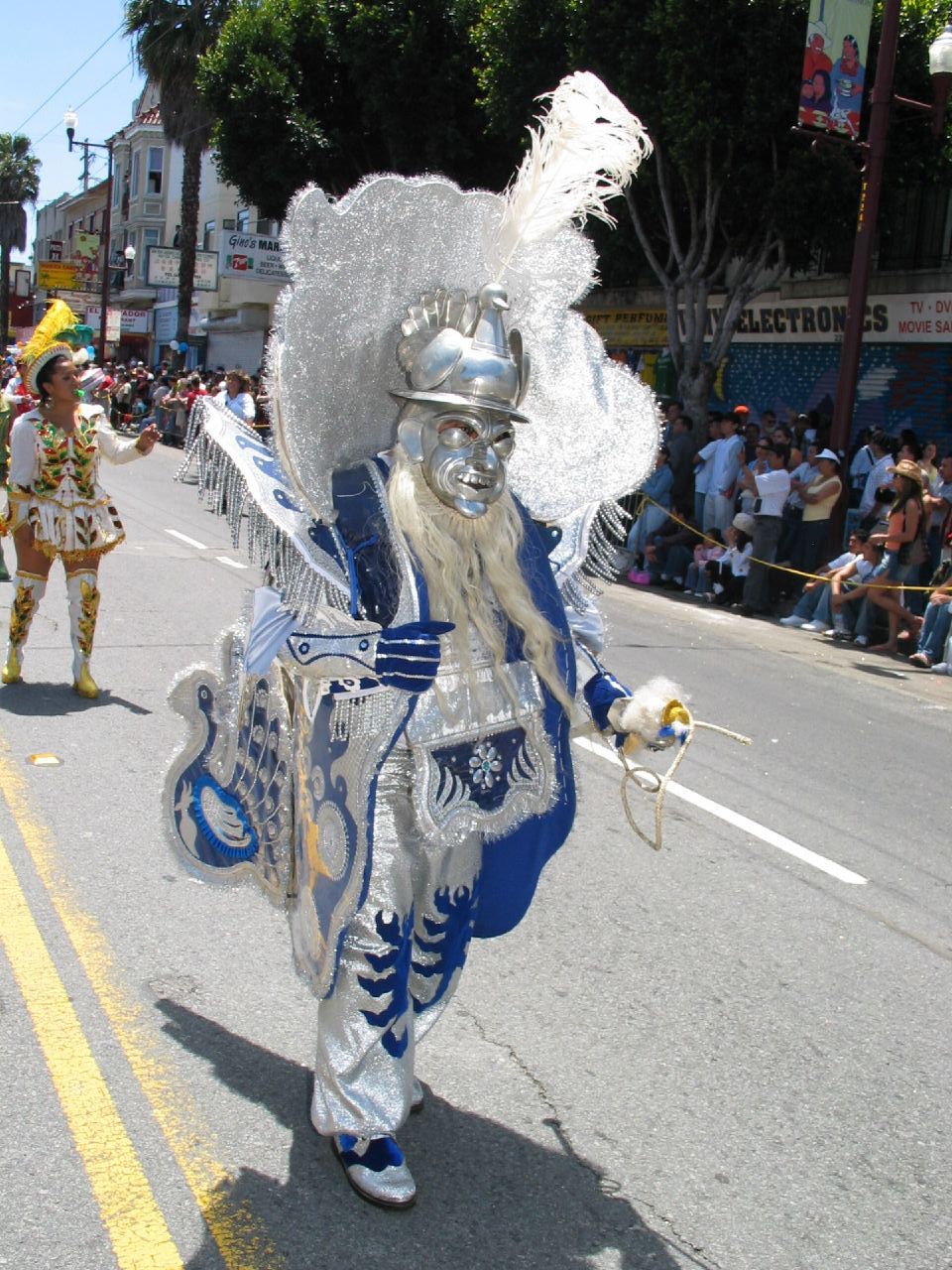 Morenada dancer representing Bolivia during a festival in San Francisco in the United States in the year 2006